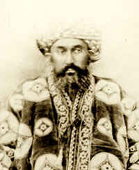 Emir of Bukhara Muzaffar (1860-1885)